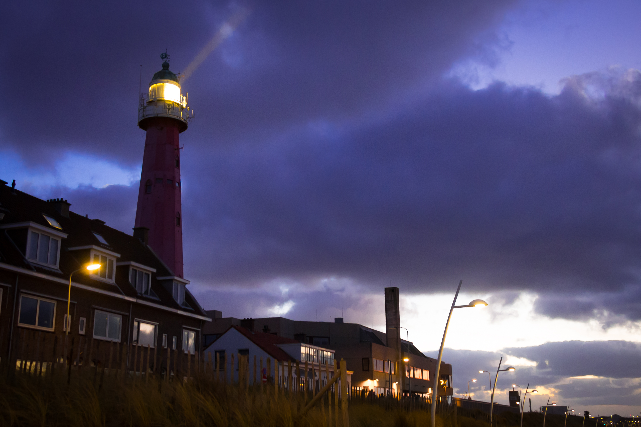 The Scheveningen lighthouse photographed just after sunset from the Strandweg (lit. "Beach Road").